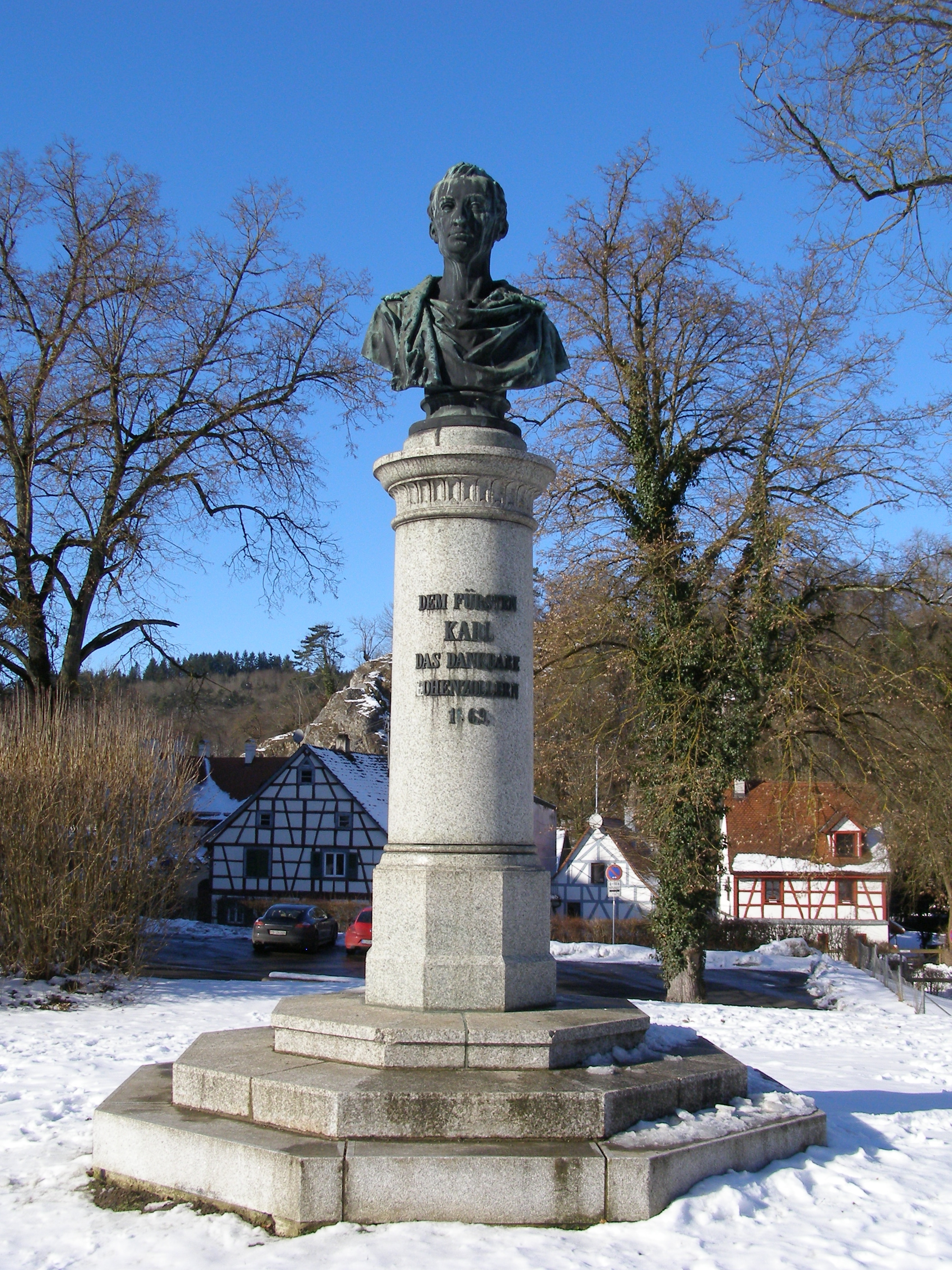 Sigmaringen - monument of prince Karl von Hohenzollern-Sigmaringen